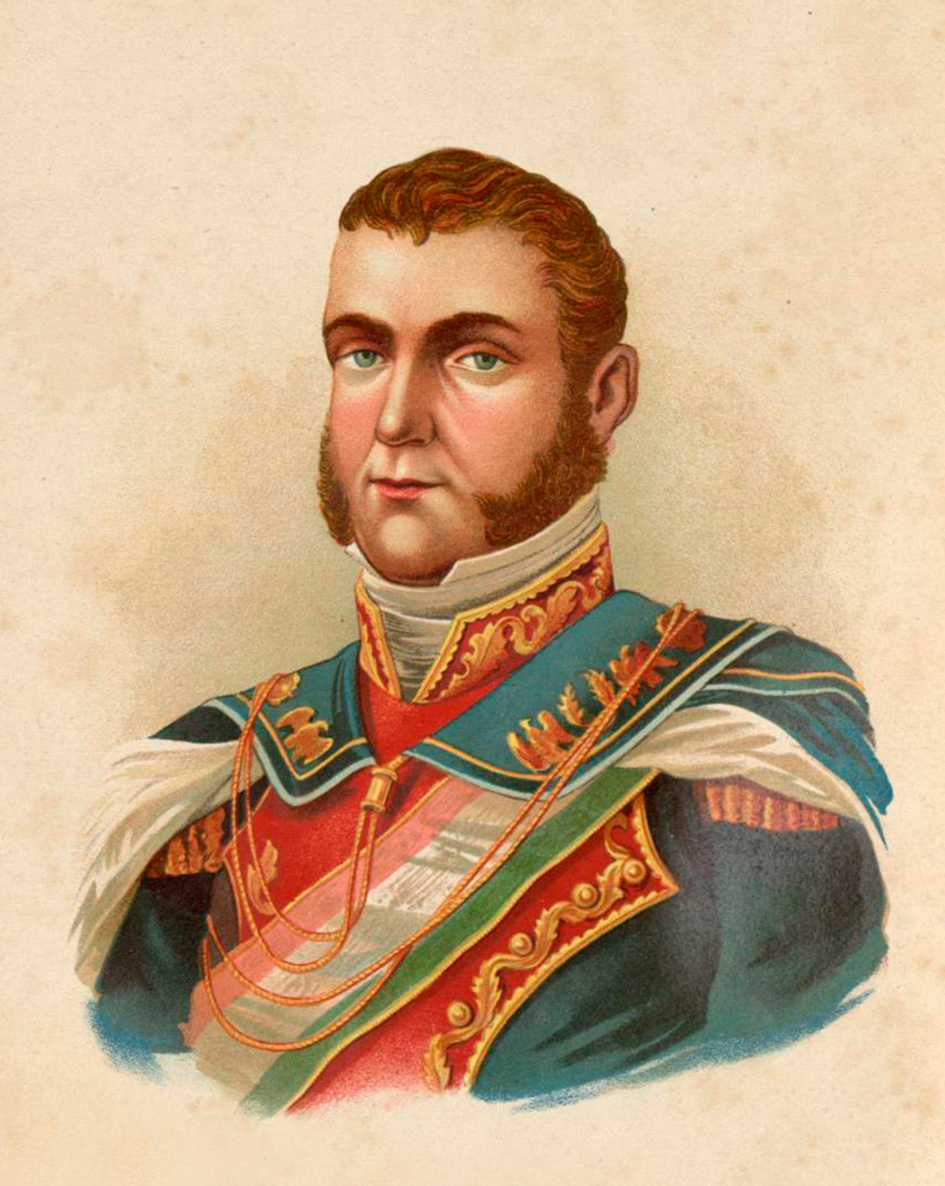 Print of the Emperor of Mexico, Agustín de Iturbide y Aramburu